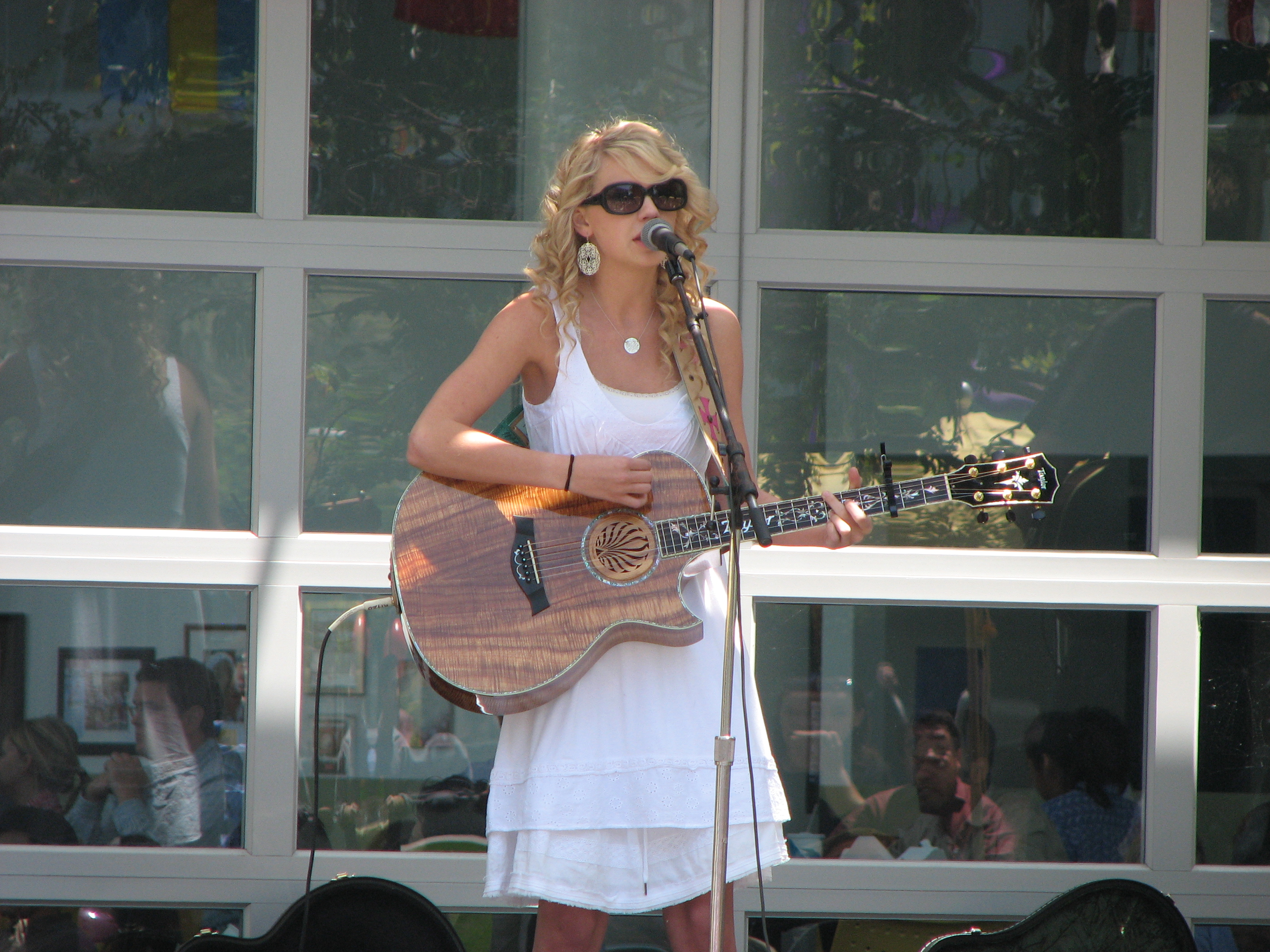 U.S. Country music singer Taylor Swift performing at Yahoo headquartersTaylorSwift4